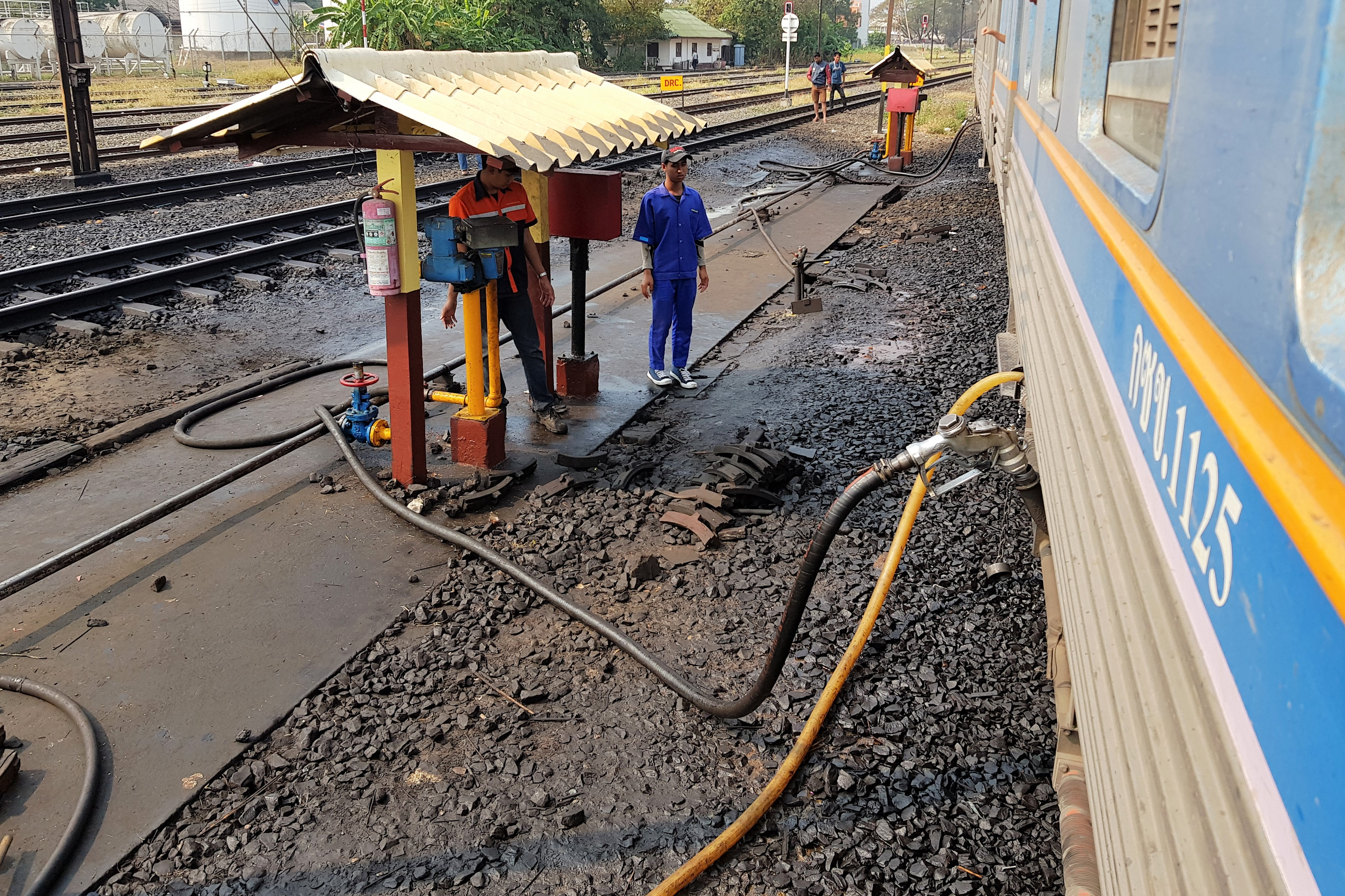 Fueling express train number 72, a diesel locomotive, at Korat's train station